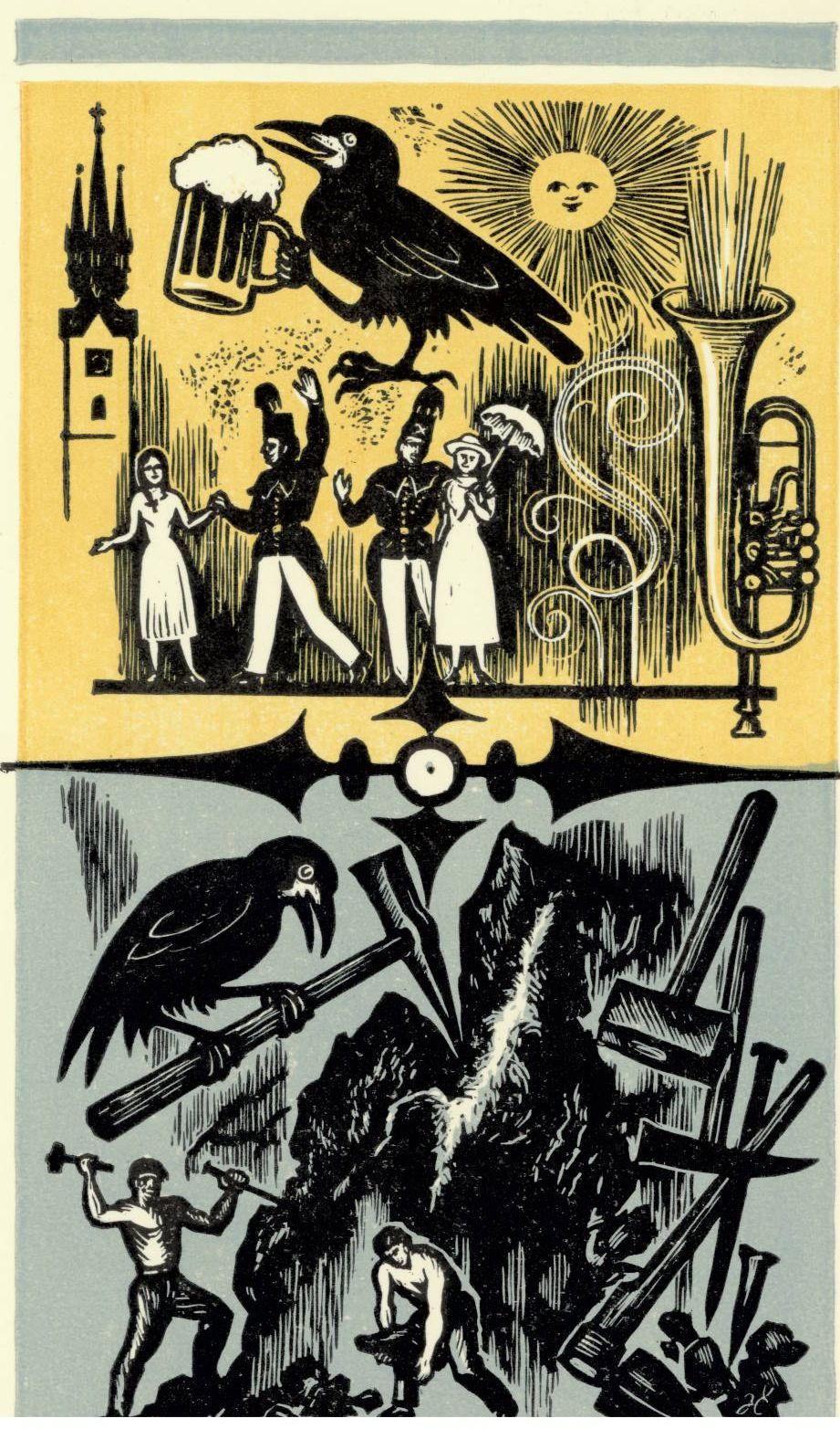 Jan Čáka: The Miners and Rooks in Příbram